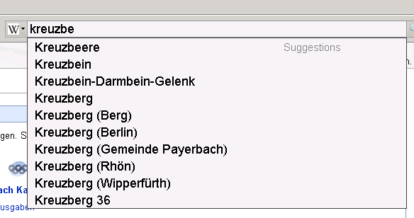 MediaWiki search plugin with suggestions shown for shown on Firefox 2.0.0.6